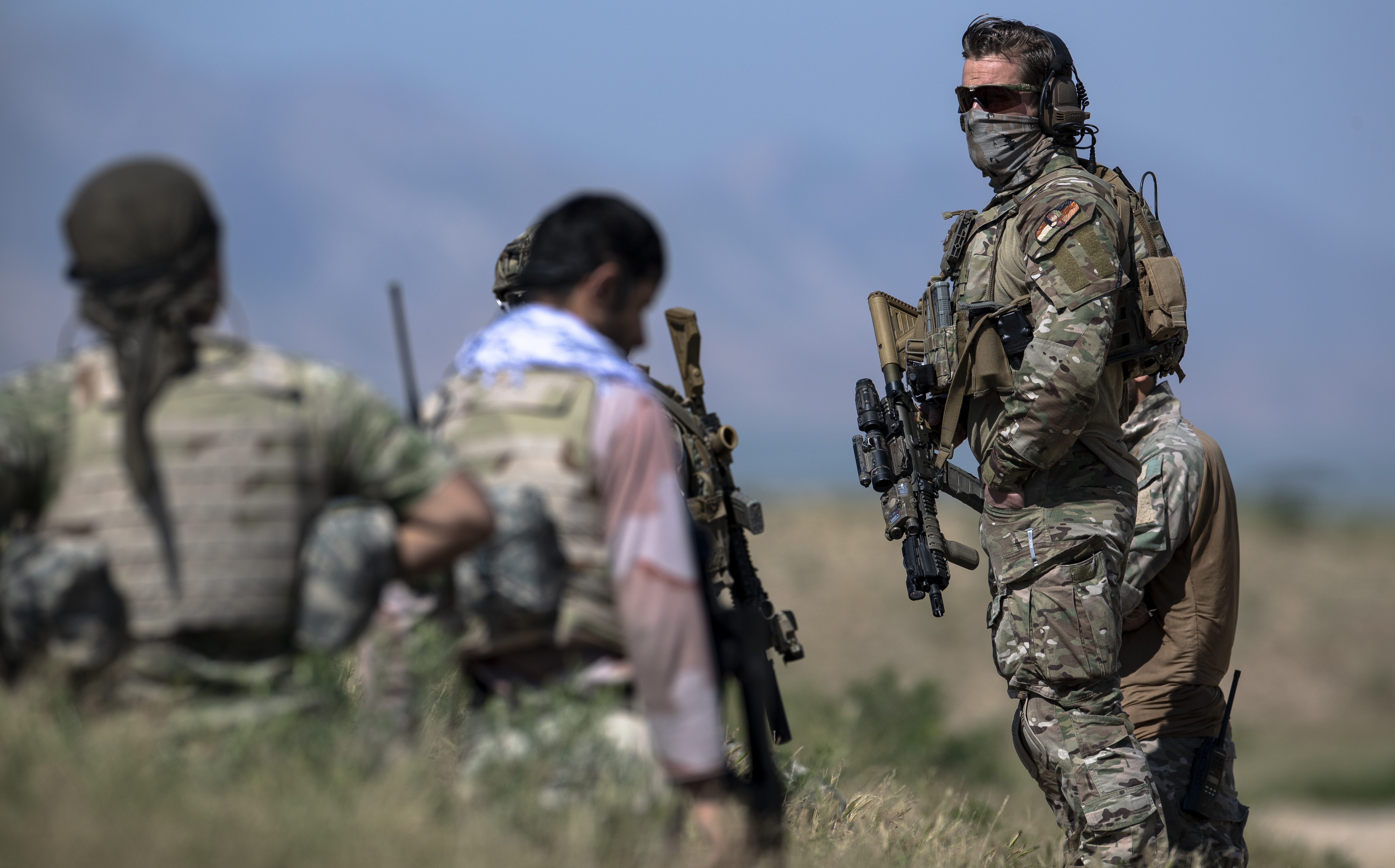 Korps Commandotroepen in Afghanistan SOAT